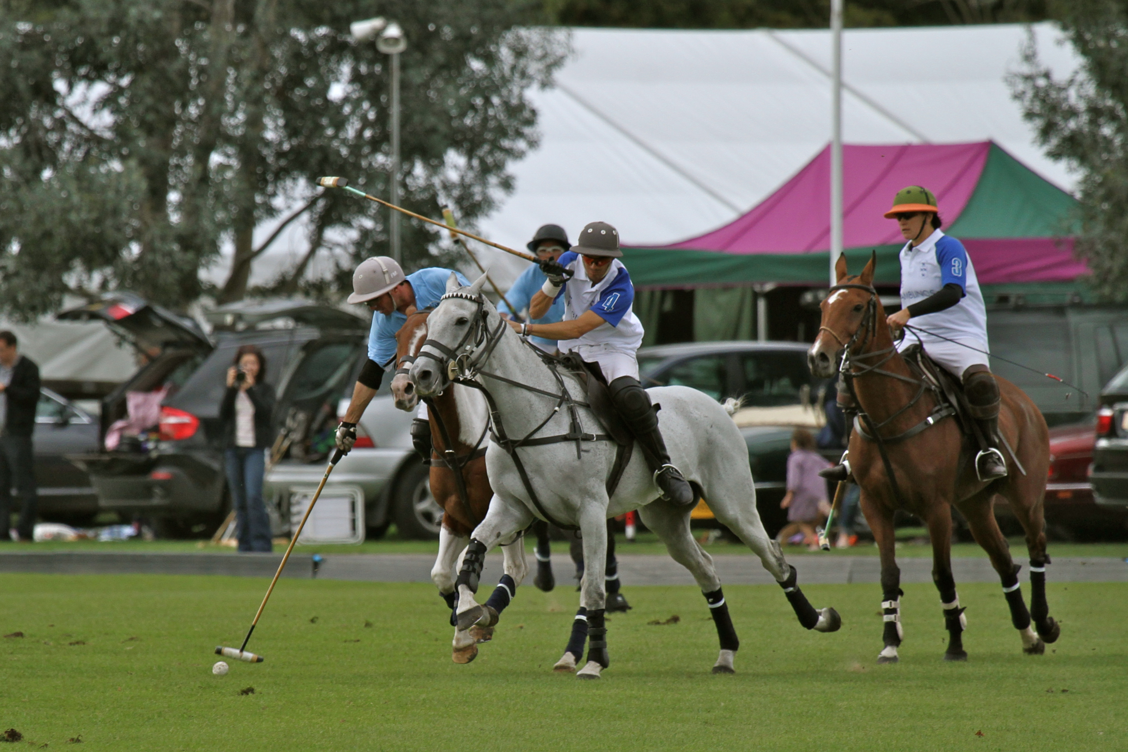 Action at Ham Polo Club